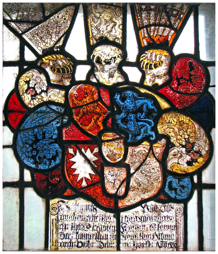 Coat of arms in Hertug Hans Church in Haderslev Denmark. Photo by Jens Christensen, Haderslev Denmark